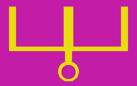 Traditional Seal of Solar Spirit Och